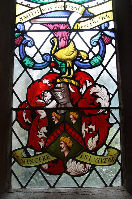 John Smith's coat of arms. Arms of Captain John Smith depicting three Turk's heads, reputedly killed by Capt. Smith in single combat. detail from the stained glass window 1161164 in St.Helena's church